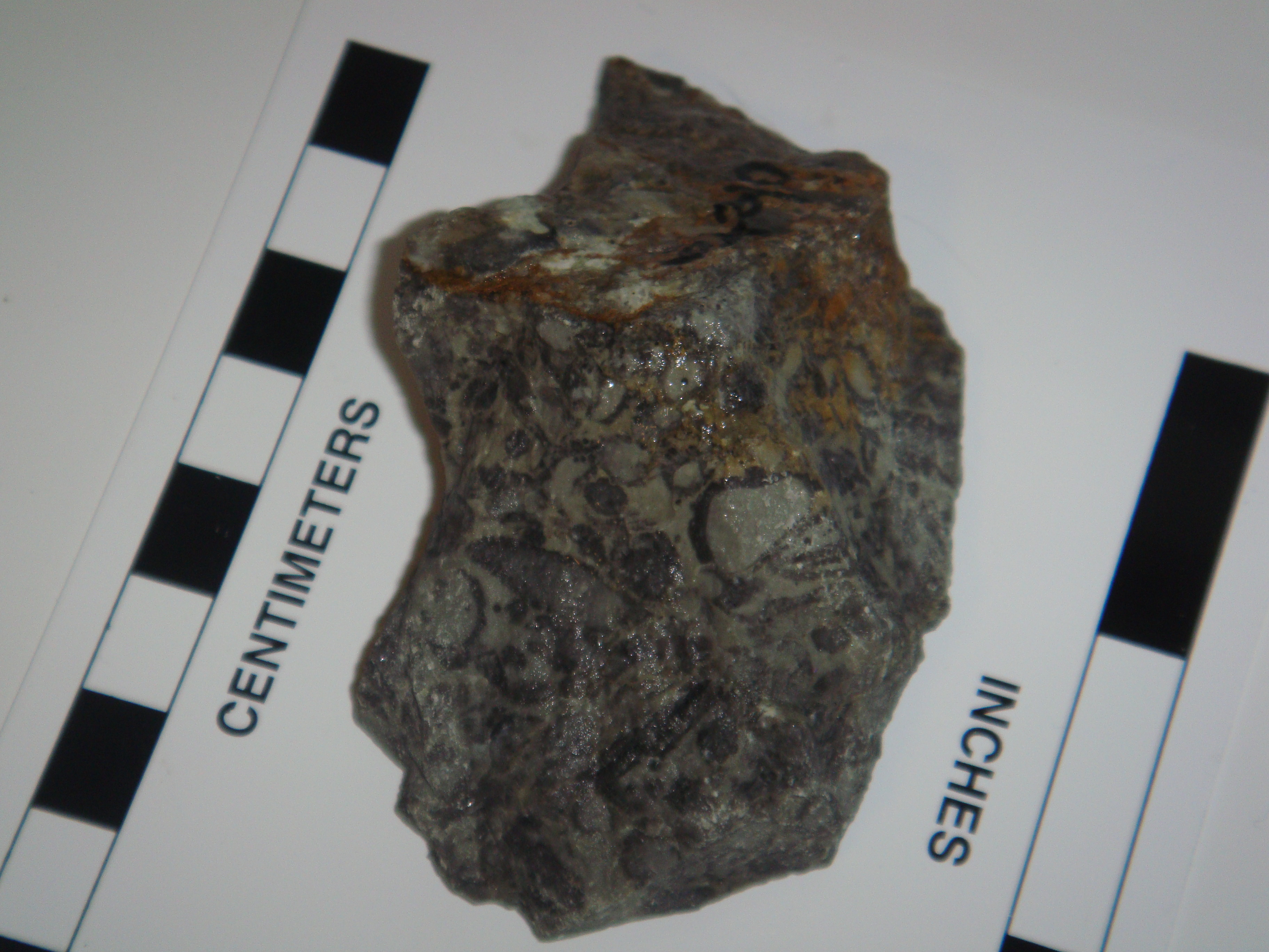 From the Poleta formation, lower Cambrian of eastern California, a fossil reef of Archaeocyathids. Because of the paraboloid nature of the animal, fossils of it in cross section (for example, on a rock face), produce conic sections.